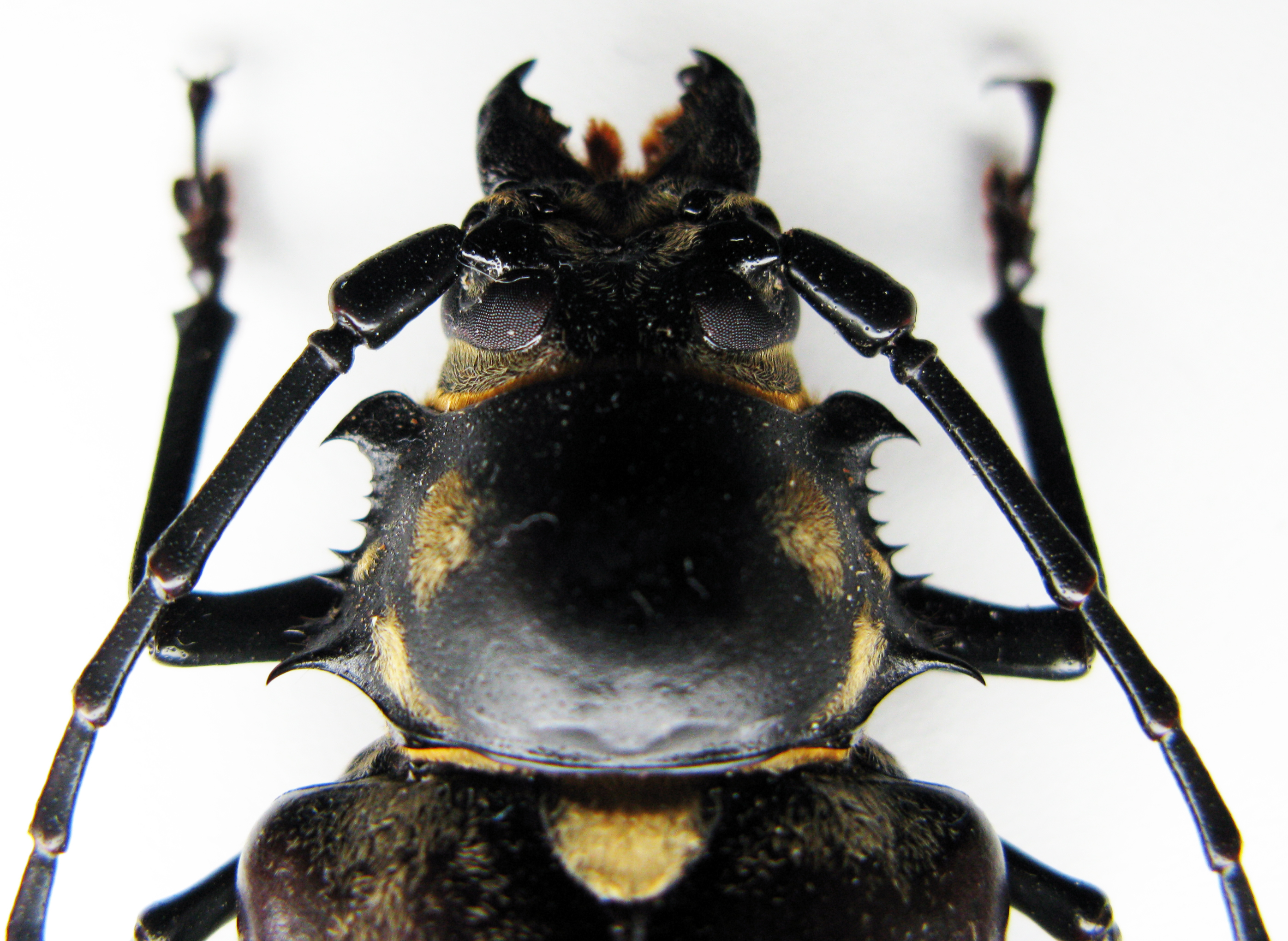 Callipogon relictus female head